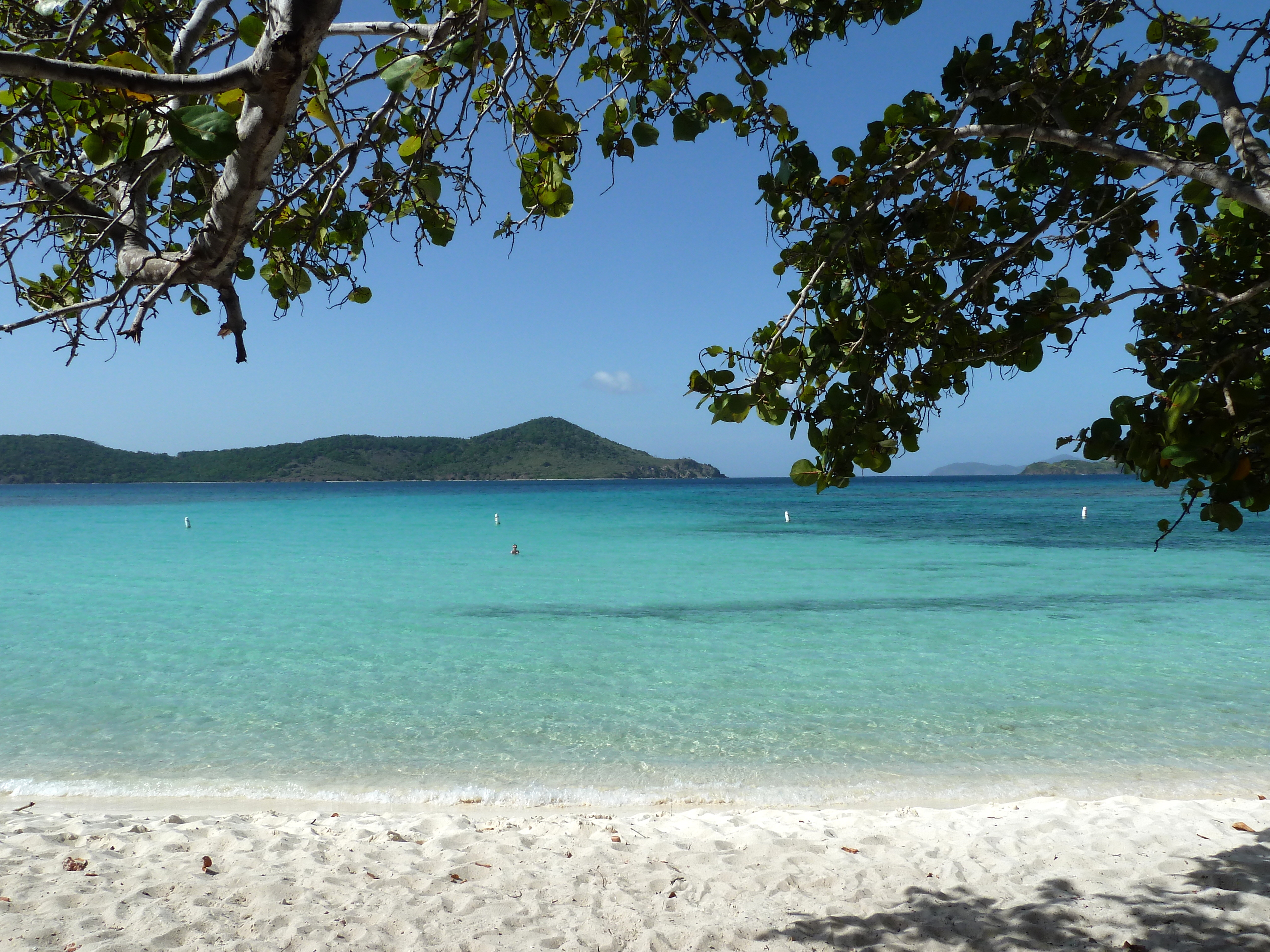 Lindquist Beach (Smith Bay Beach Park), St. Thomas, USVI, Aug 2013.